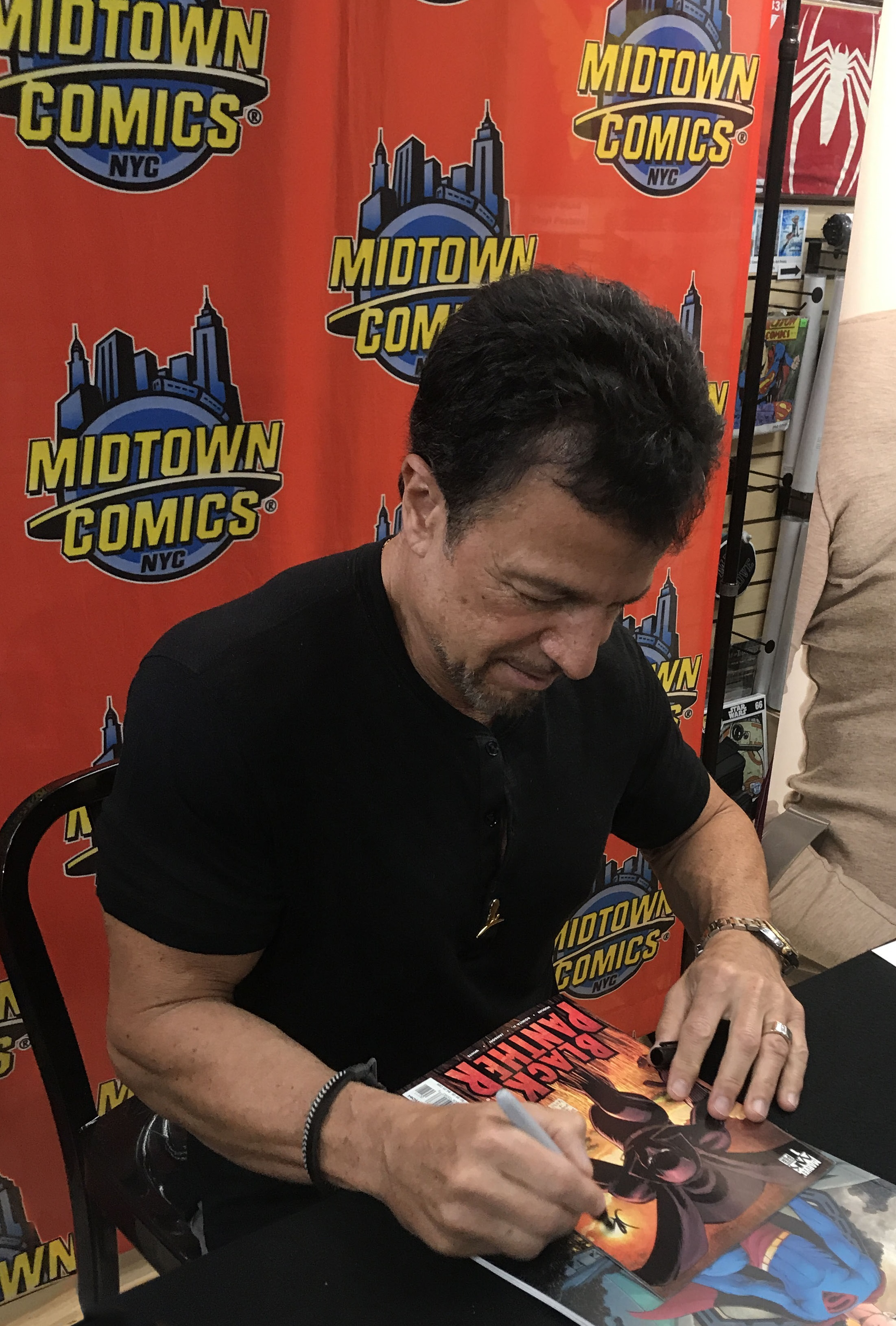 Comics artist John Romita Jr. at a June 20, 2019 book signing for Superman: Year One #1 (August 2019) at Midtown Comics Downtown in Lower Manhattan. In the photo, Romita is signing an issue of Black Panther. This photo was created by Luigi Novi. It is not in the public domain, and use of this file outside of the licensing terms is a copyright violation.